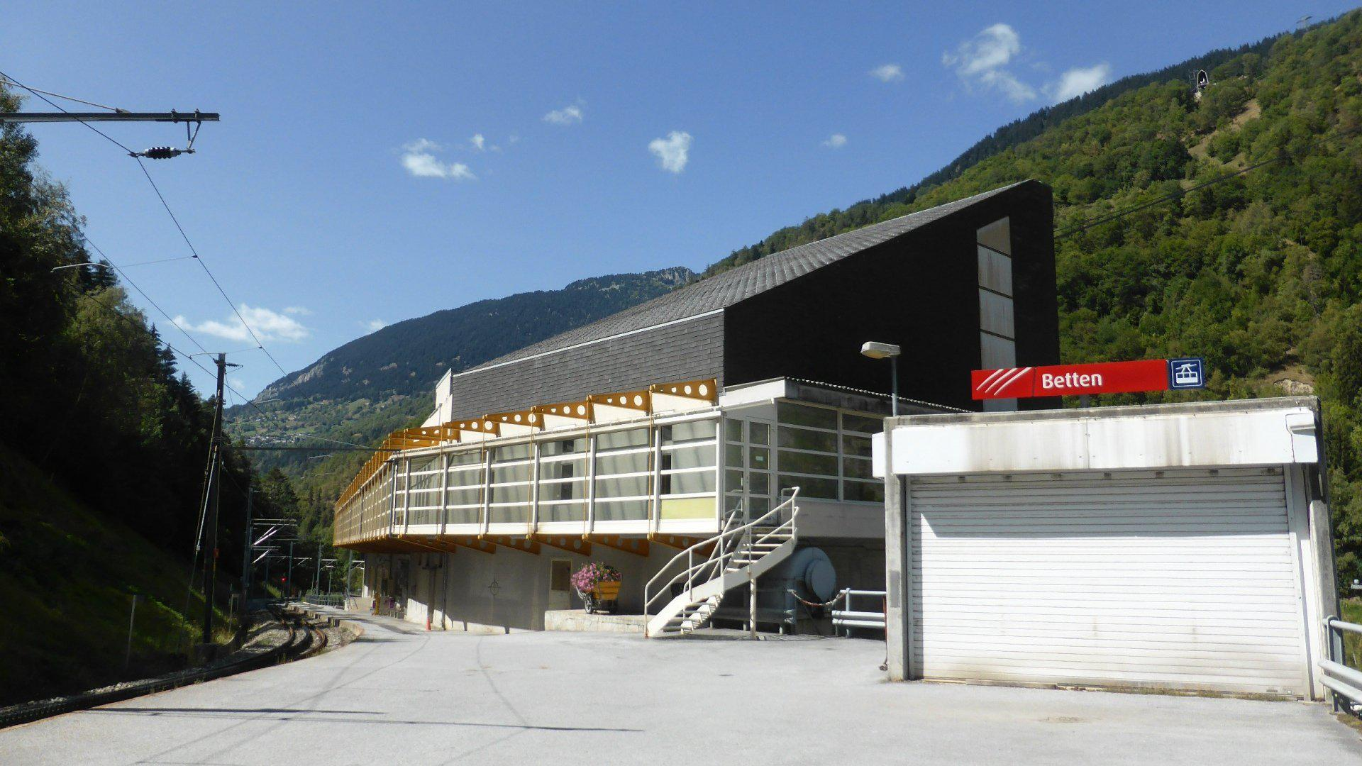 Betten Talstation railway station in Grengiols, Switzerland.